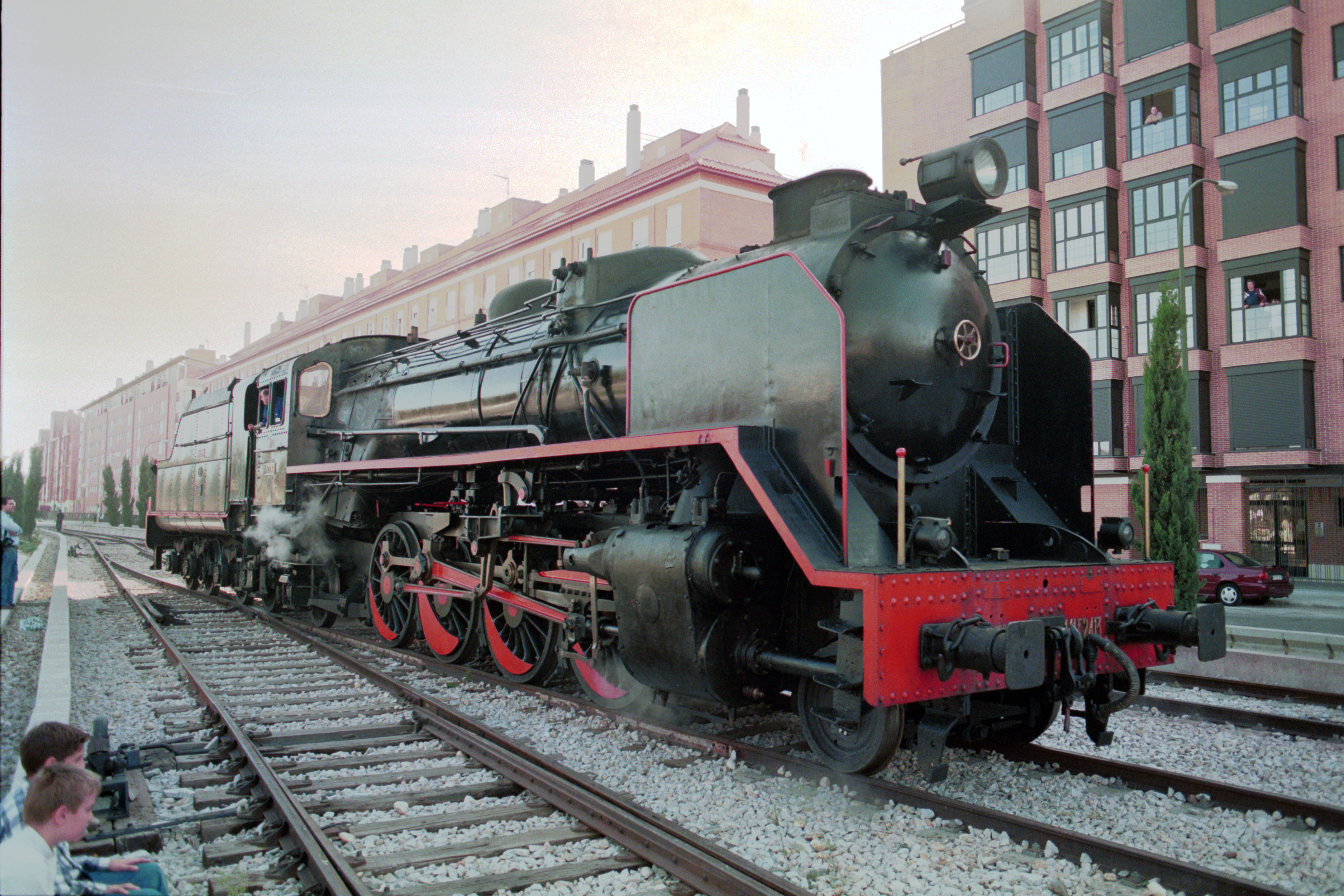 The spanish 141 "Mikado" class 141F-2413 , in an exibition in the "Museo del Ferrocarril de Delicias" (Delicias Railroad Museum), Madrid. Date around 1994.